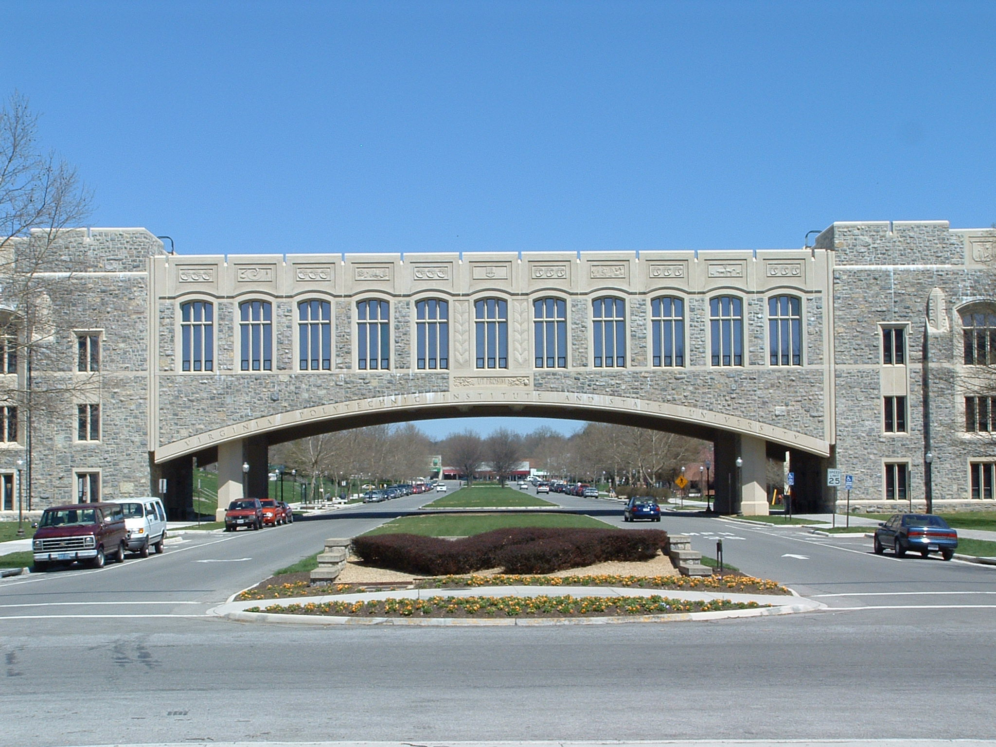 Virginia Tech's Torgersen Hall bridge over the mall shot from standing on War Memorial Chapel